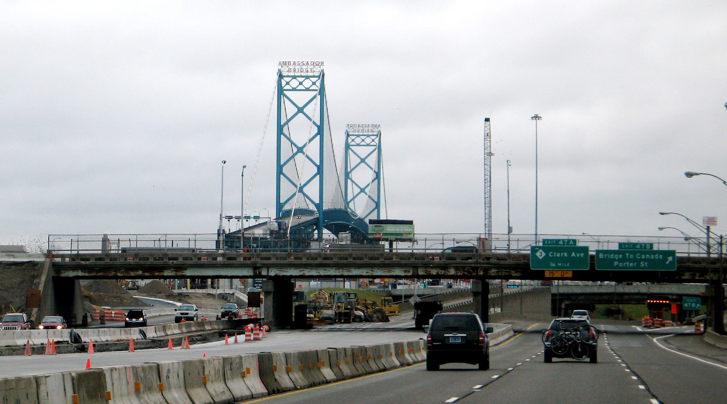 View of the Ambassador Bridge from I-75 during the Gateway Project